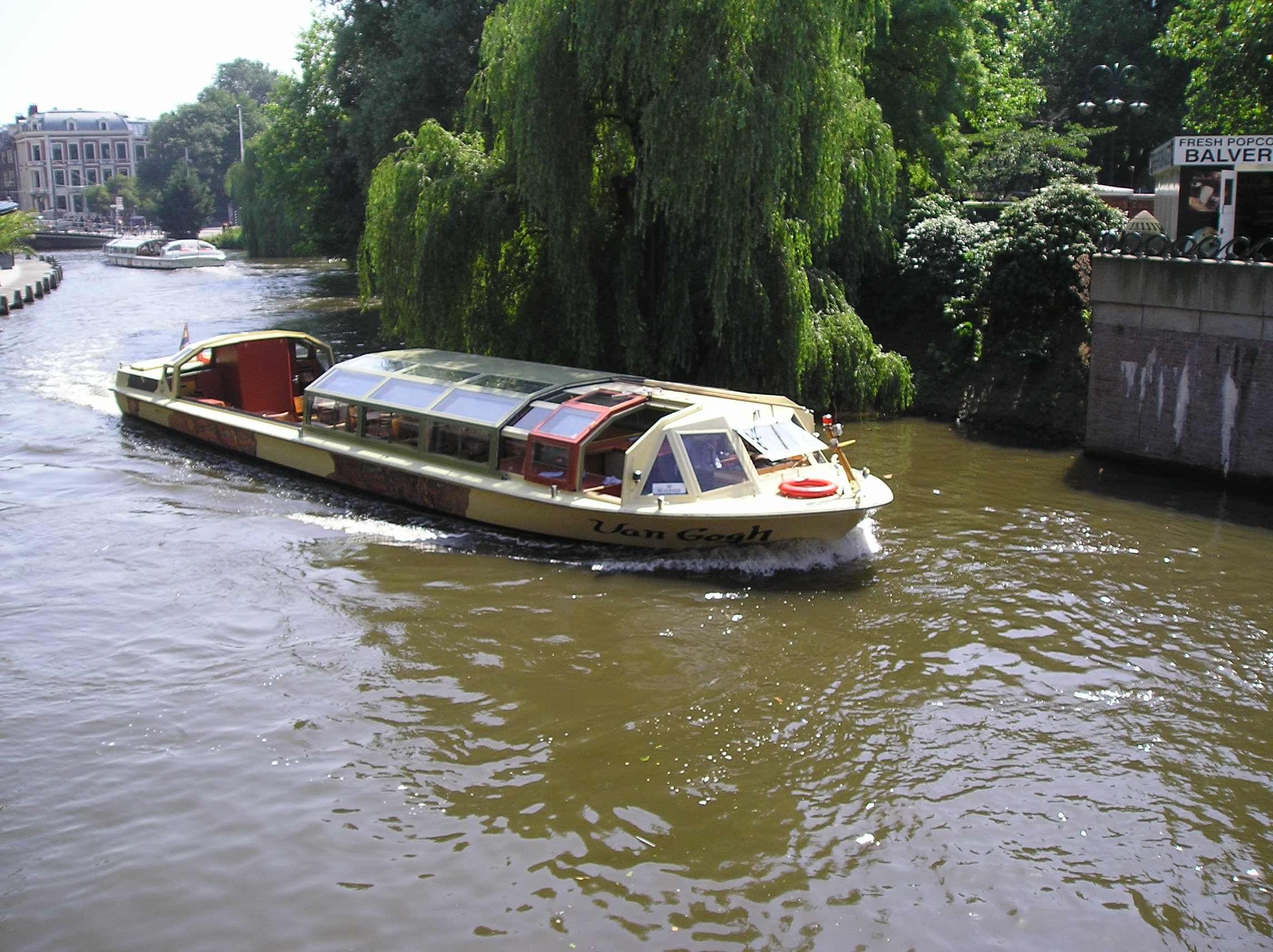 Tourists' boat called Van Gogh in Amsterdam.